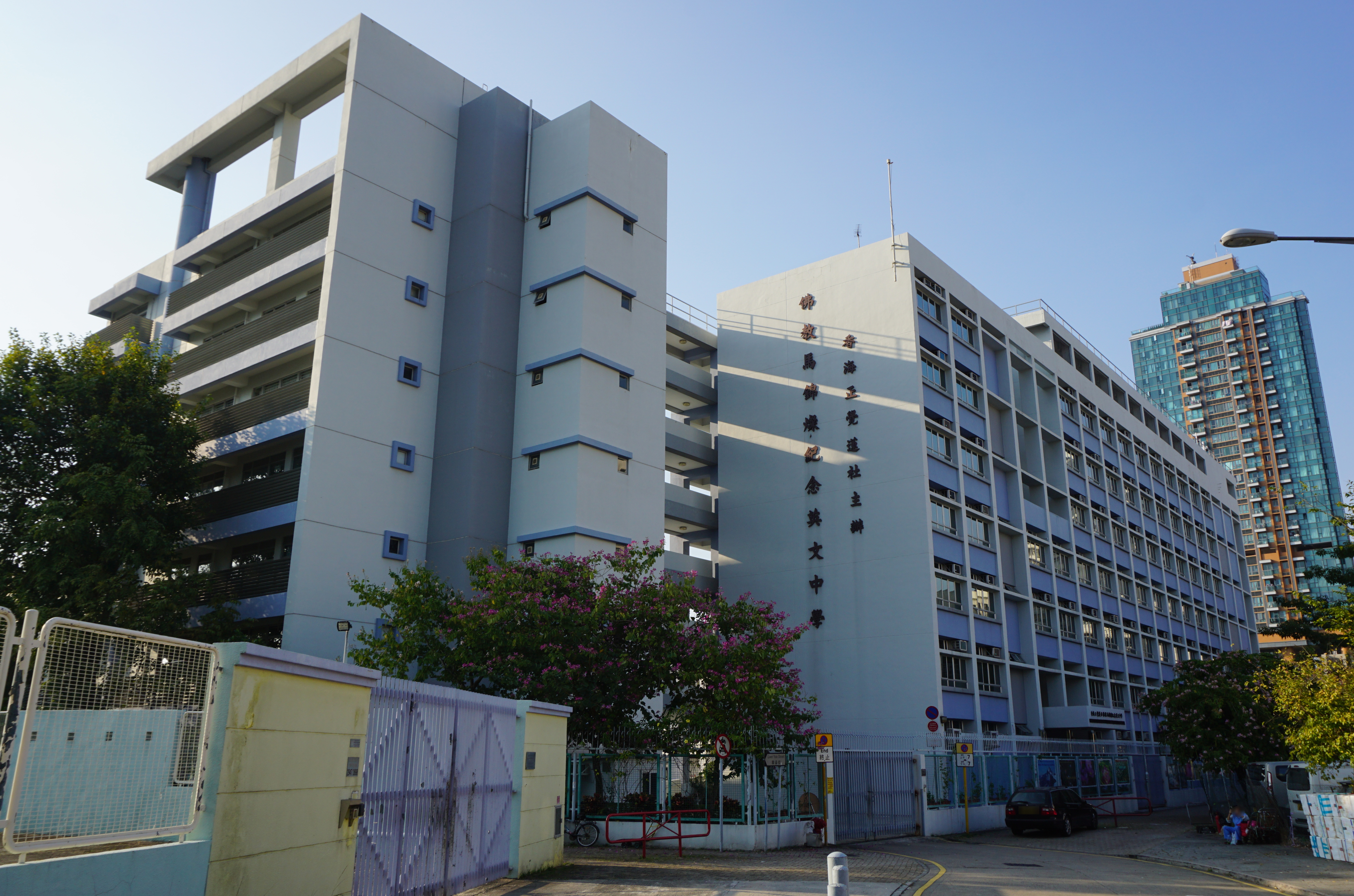 HHCKLA Buddhist Ma Kam Chan Memorial English Secondary School in Luen Wo Hui, Hong Kong.